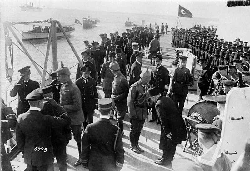 Information added by Wikimedia users.